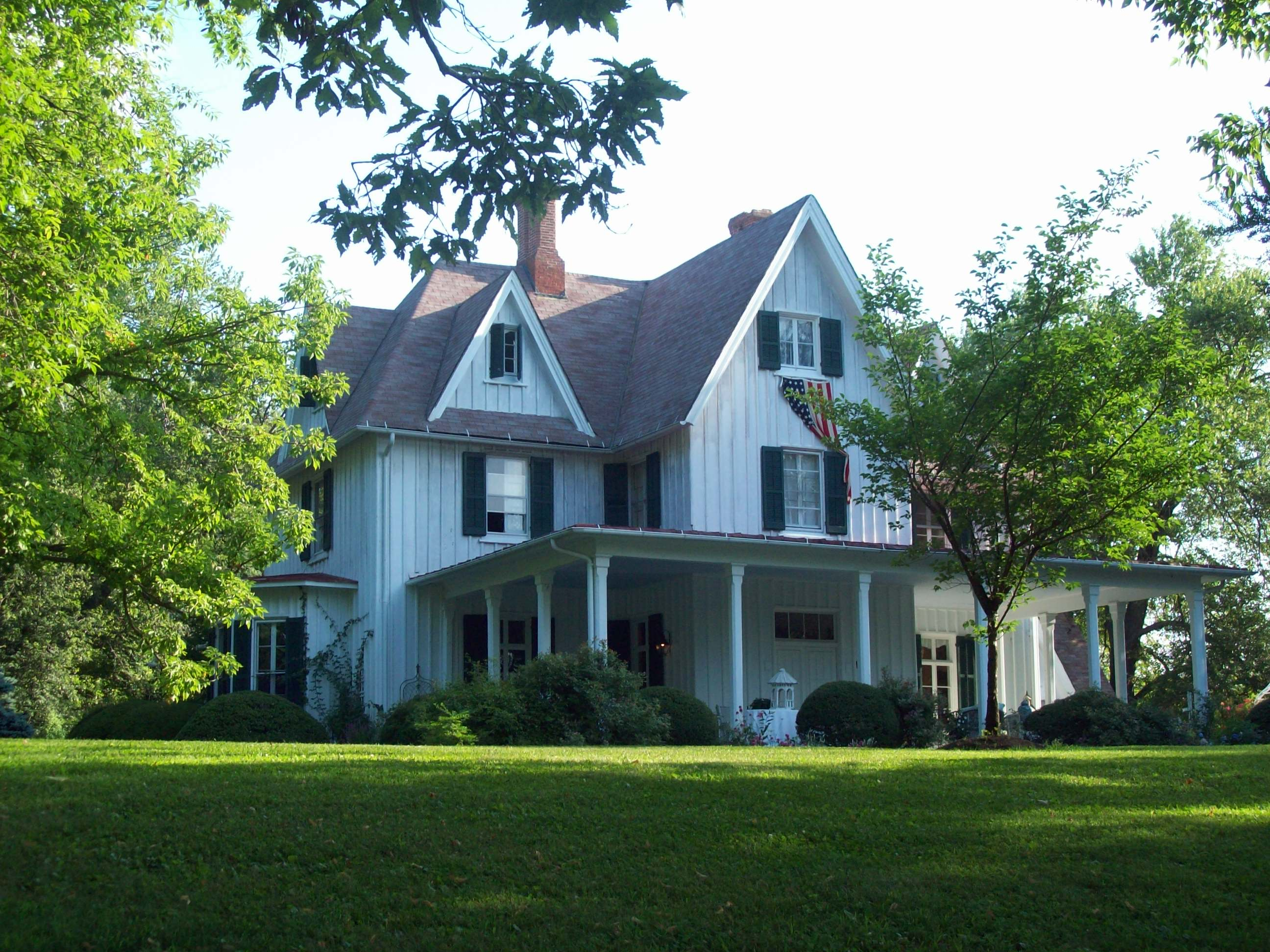 Indian Ridge, July 2009